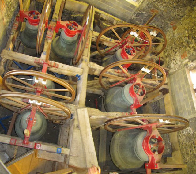 The ring of eight bells in the tower of St Michael and All Angels parish church, Blewbury, Oxfordshire (formerly Berkshire). I stitched two photos together to show them all.